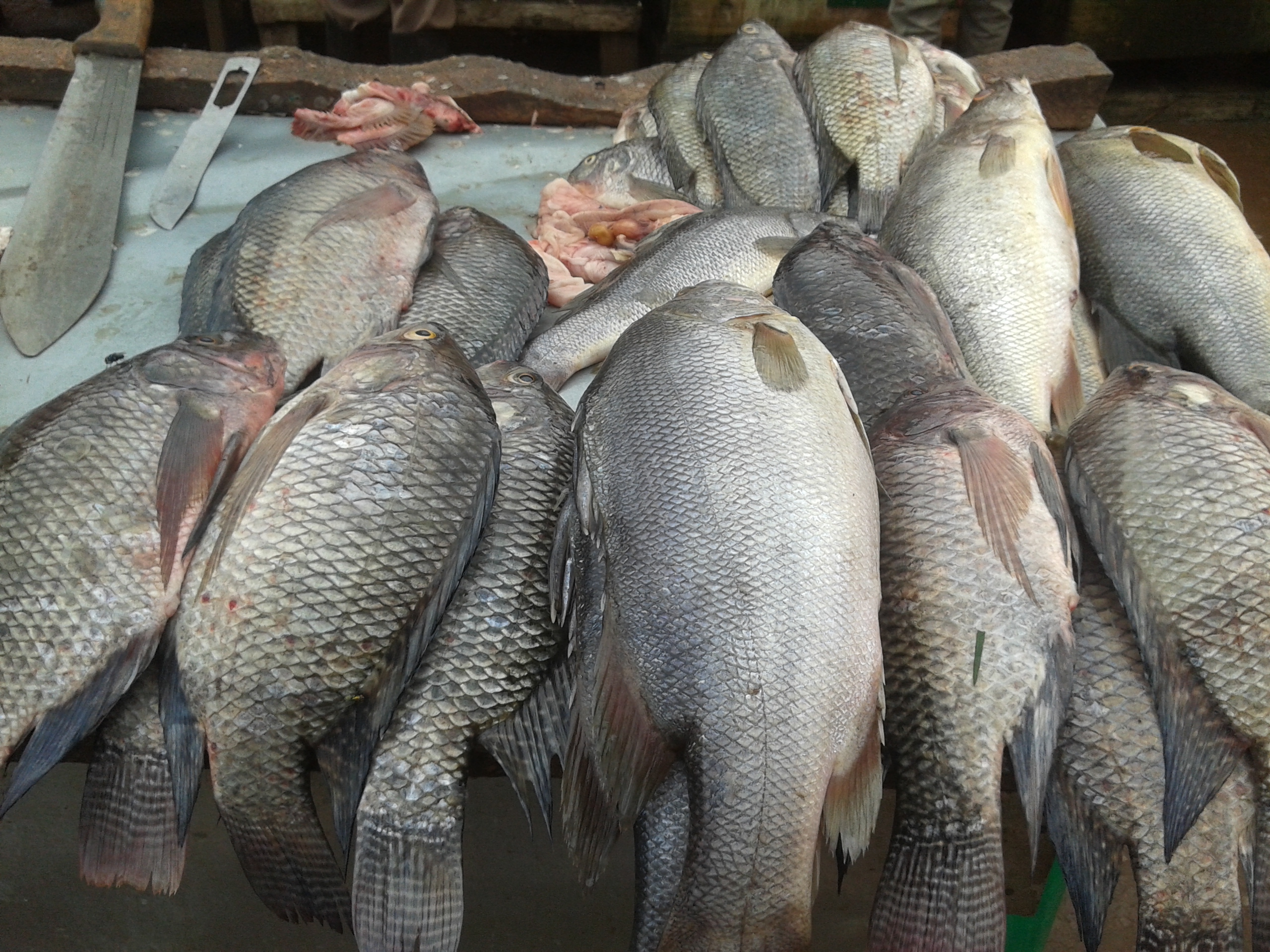 Tilapia fish for sale in at market in Uganda This is an image of food from Uganda